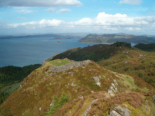 Castle Dounie. Castle Dounie is a dun, or stone fort, overlooking the Sound of Jura and Loch Crinan. Loch Craignish in the background.